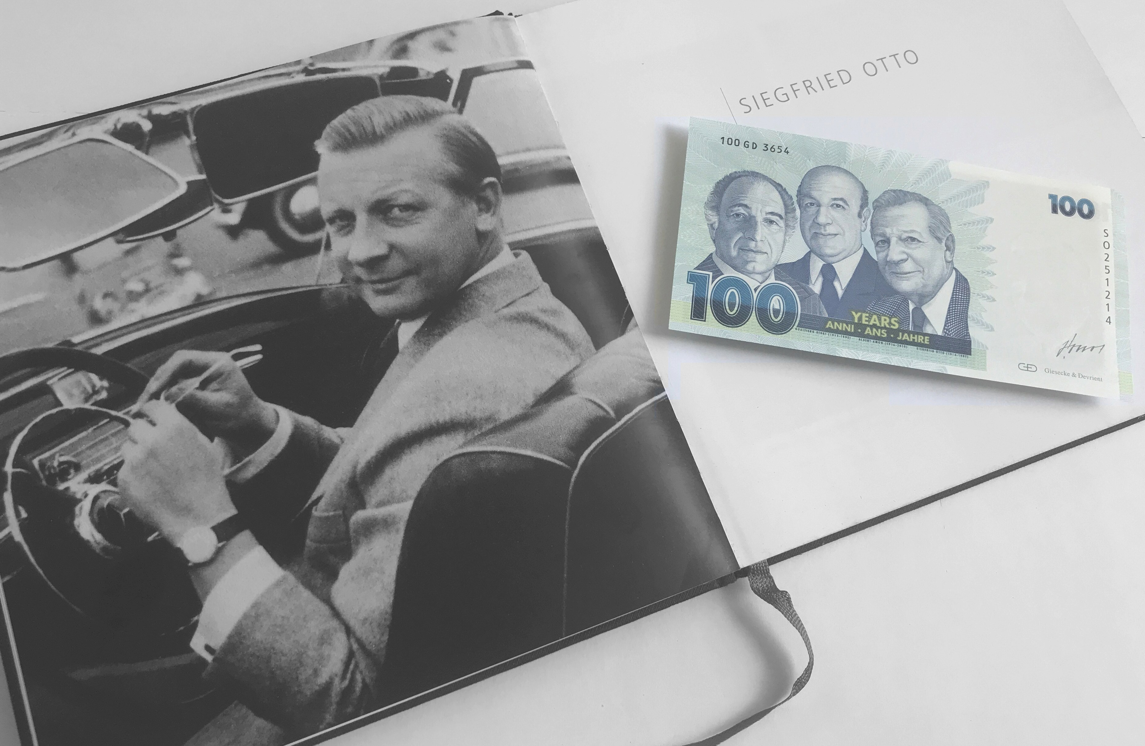 Siegfried Otto, refounder of G+Din Munich, together with a commemorative banknote on behalf of his 100th birhtday anniversary. The banknote also shows Gualtiero Giori (1913-1992) (left), founder of the Italian Giori SA., and Albert Amon (1916-2010) (mitte), the executive manager of Swiss Sicpa.